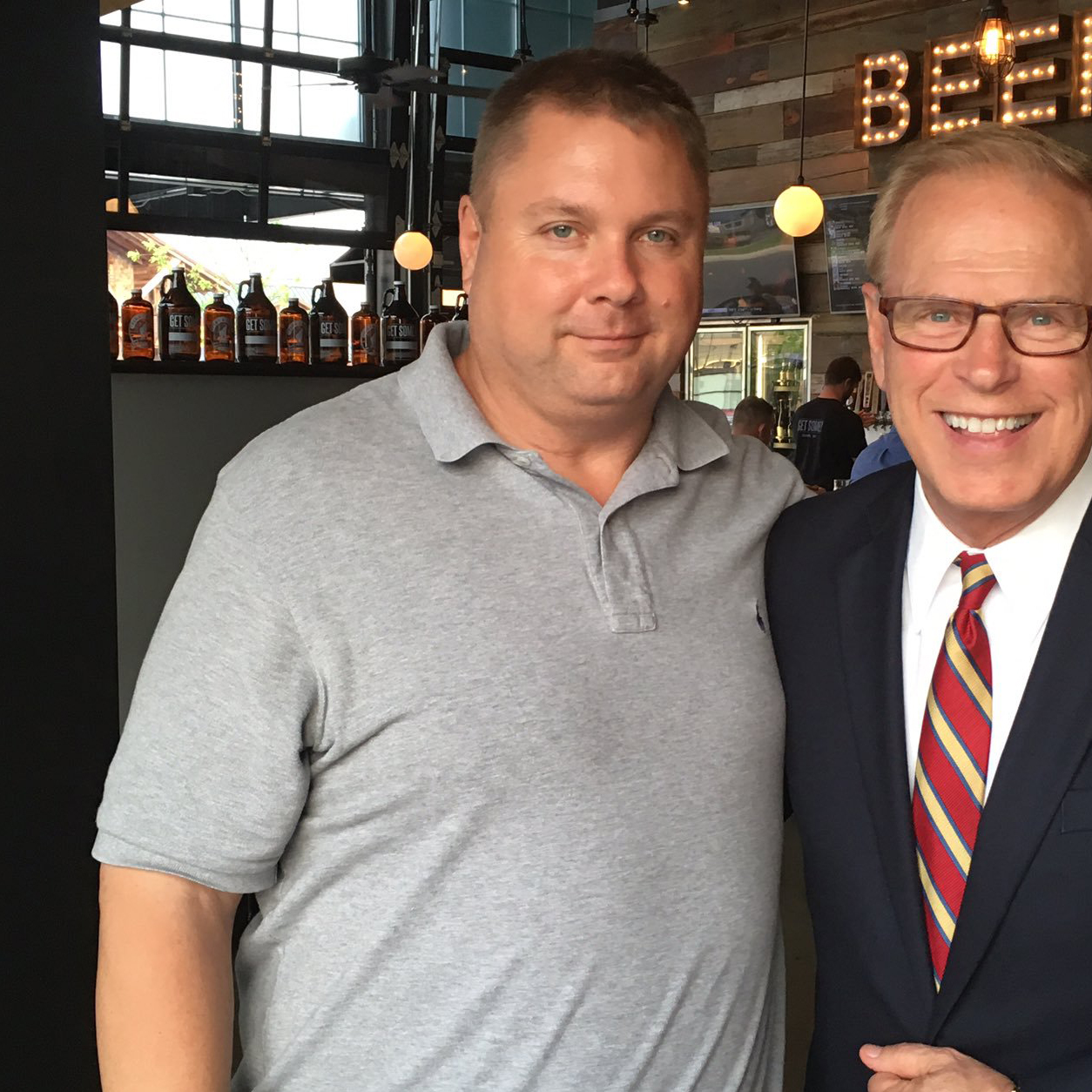 A photograph of Barry Aycock with Governor Ted Strickland at a Columbus, OH restaurant.